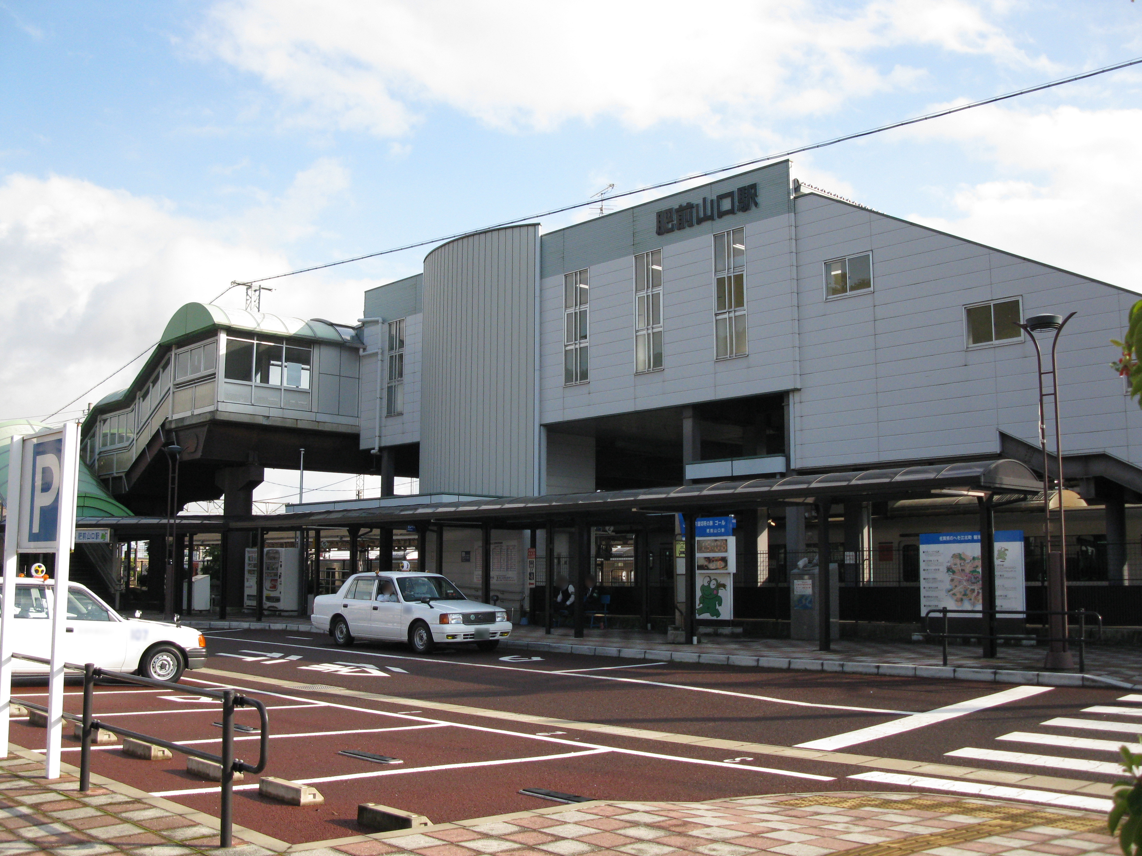 The north-side entrance to Hizen-Yamaguchi Station on the Kyushu Railway(JR Kyūshū) Nagasaki Main Line, Sasebo Line in Kōhoku town, Saga prefecture, Japan